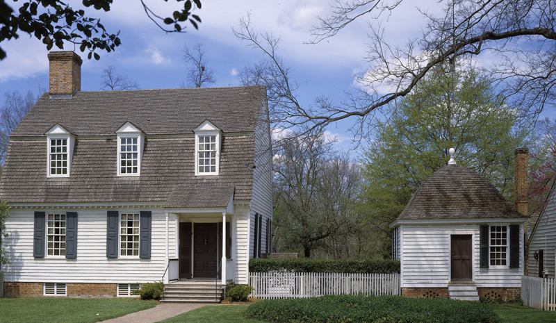 House purchased in 1759 by John Tayloe II of Mount Airy, Richmond Co, Virginia